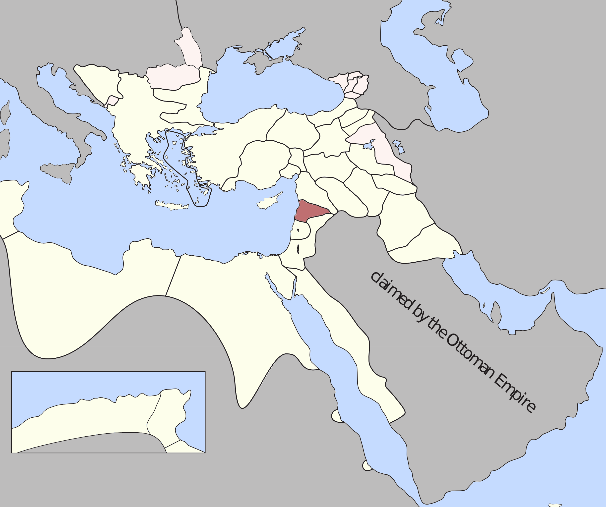 XY Eyalet, Ottoman Empire (1795). Source: A Brief History of the Late Ottoman Empire at Google Books By M. Sukru Hanioglu, Figure 1